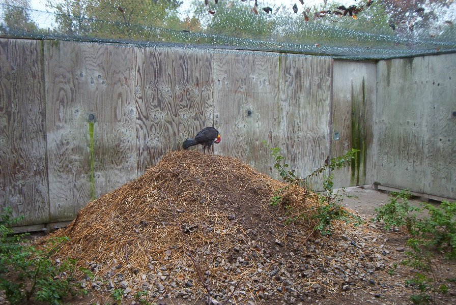 Australian Brush turkey on it's mound. Kansas City Zoo